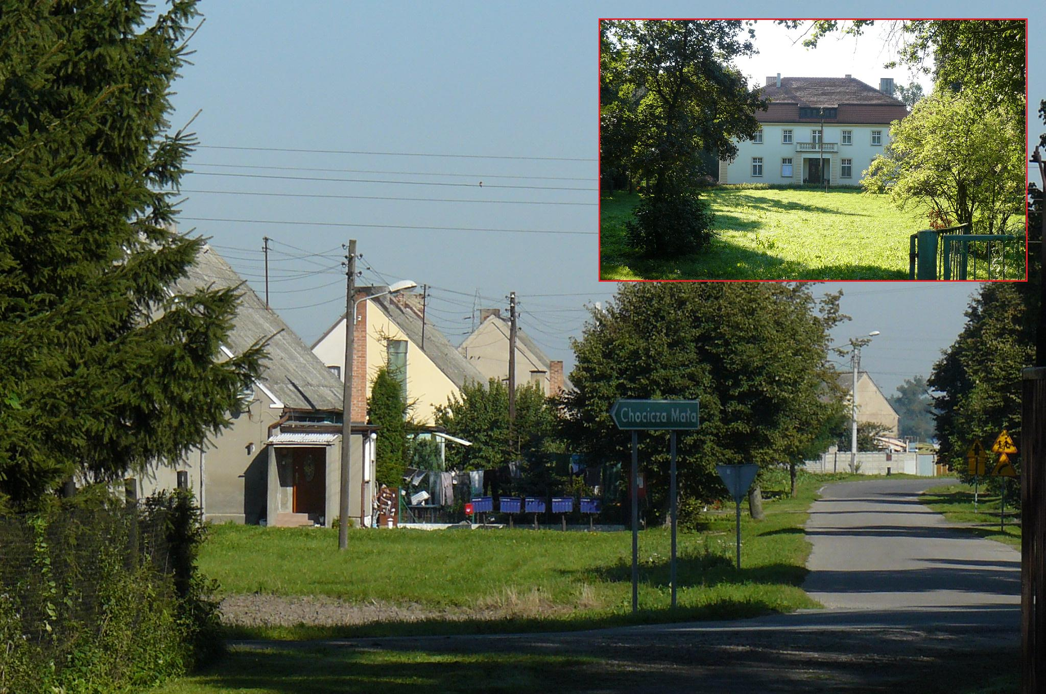 Chocicza Wielka (Wrzesnia).